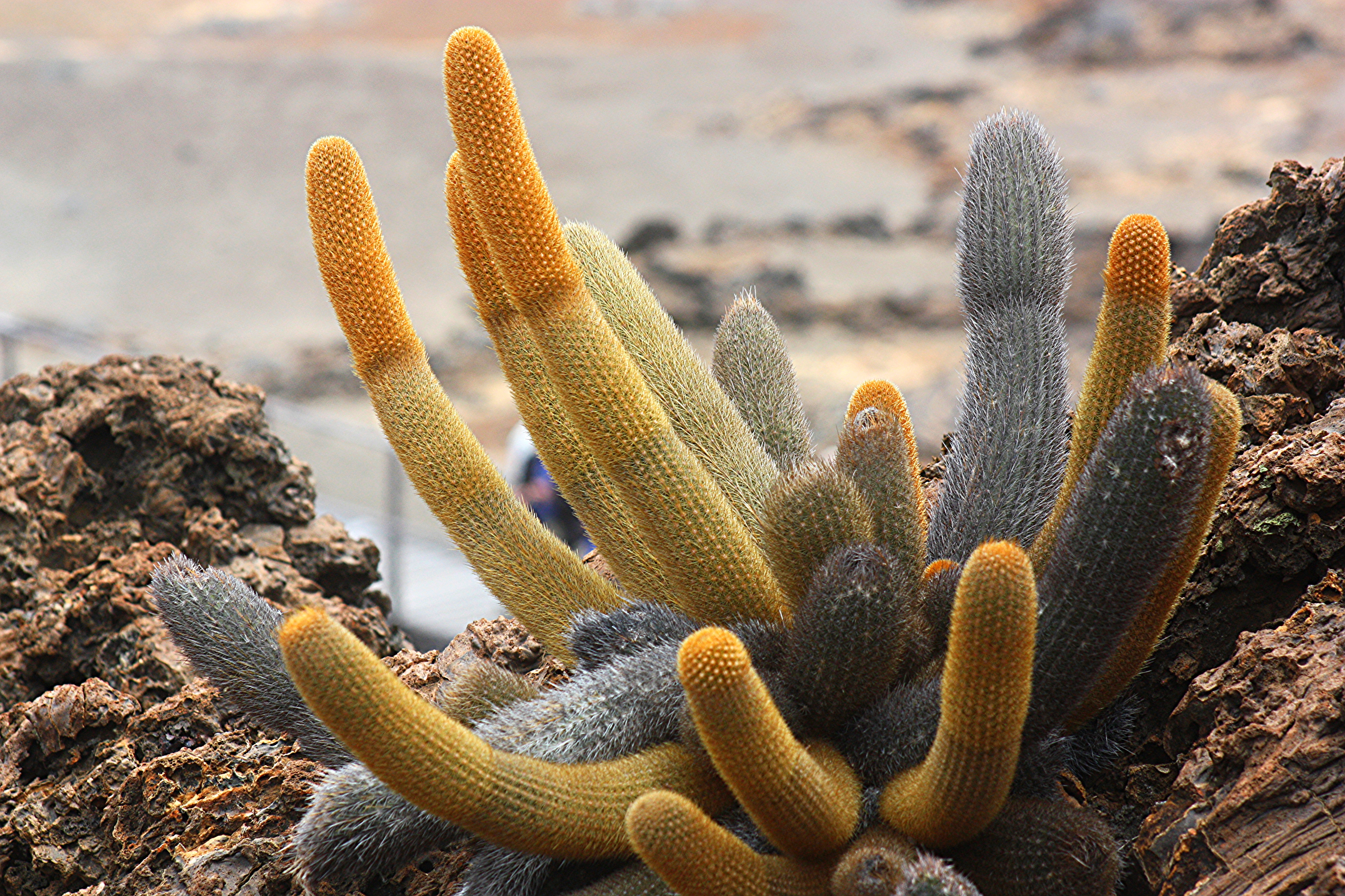 Lava cactus (Brachycereus nesioticus) in the Galpagos Islands.